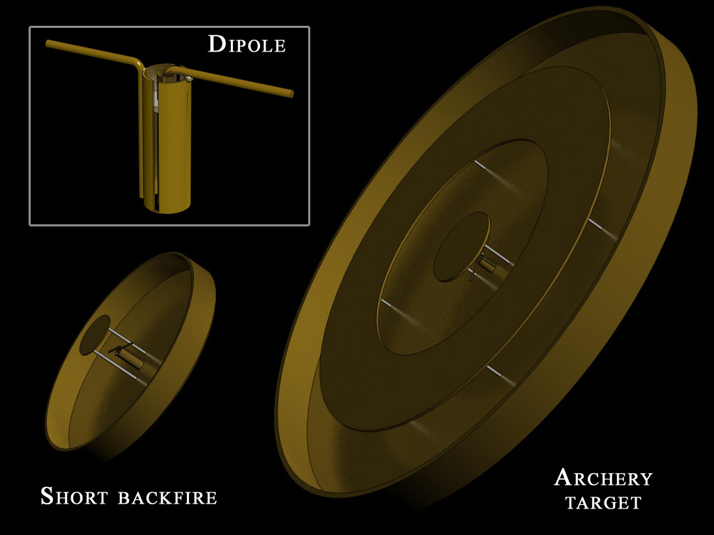 3D image of a short backfire antenna, archery target antenna and their dipole. Dipole in the corner not to scale, other dimensions are approximates, but show size and design variations between the two antenna types for a single wavelength.